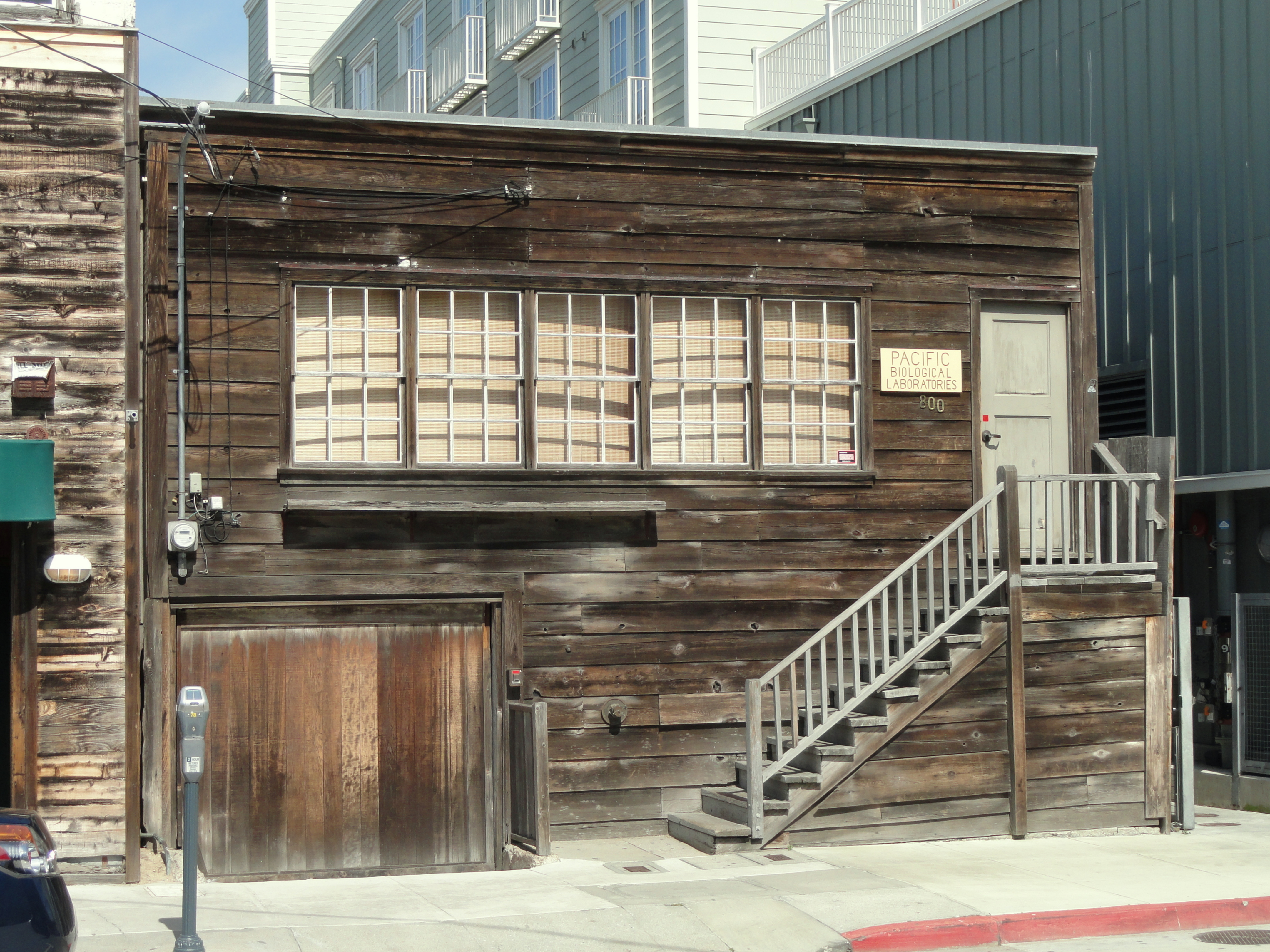 Pacific Biological Laboratories - Monterey, California, USA.